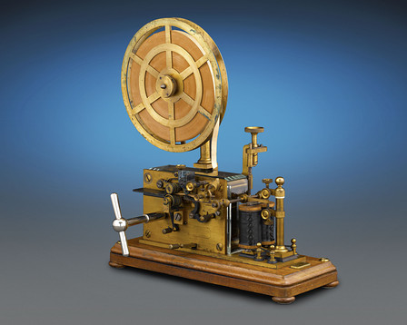 Morse Code receiver and recorder from the late 19th century